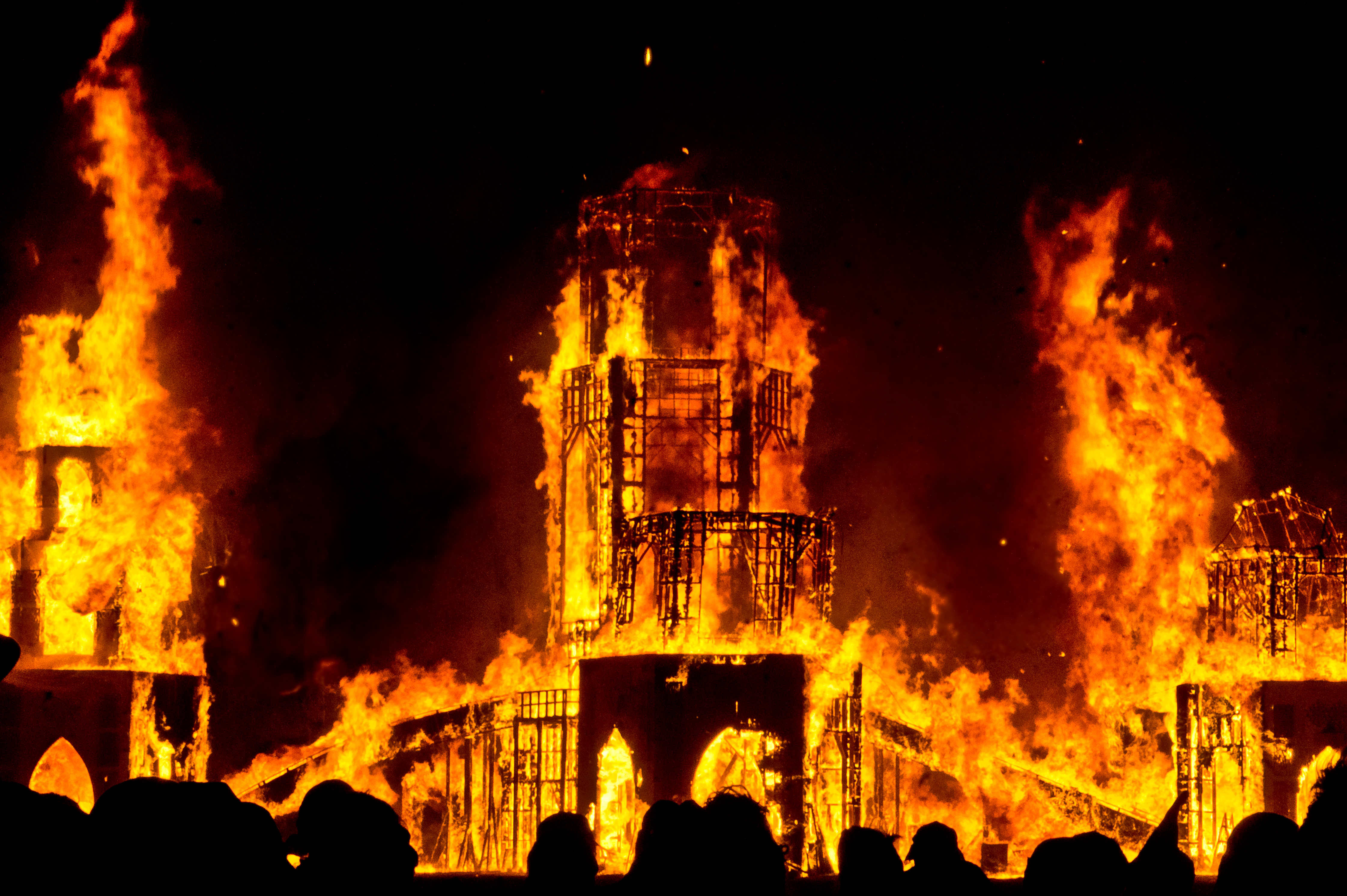 Temple on Fire